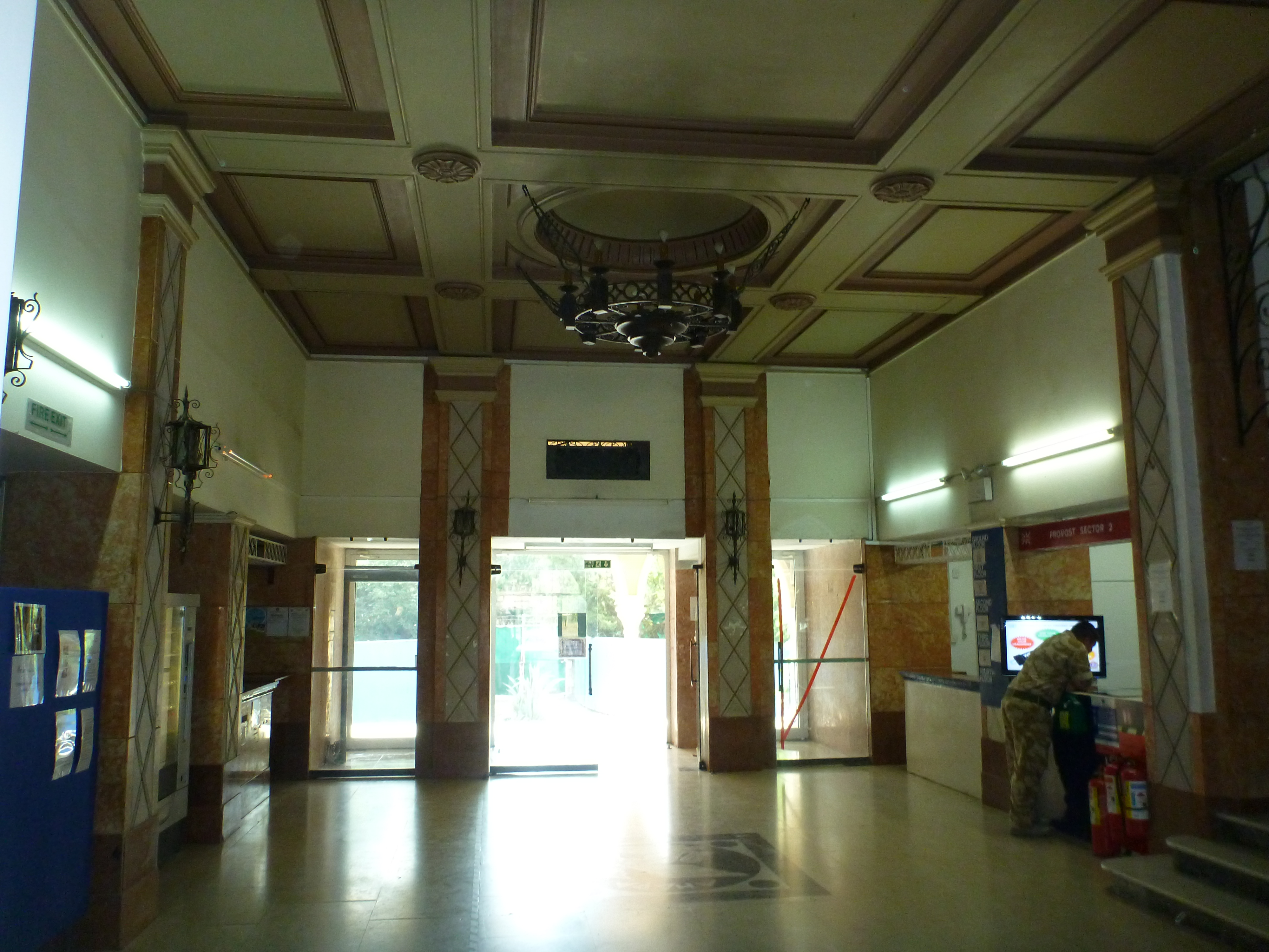 The lobby of the Ledra Palace Hotel, looking out of the main entrance. The reception desk, visible at right, is now used as the UN Provost station.